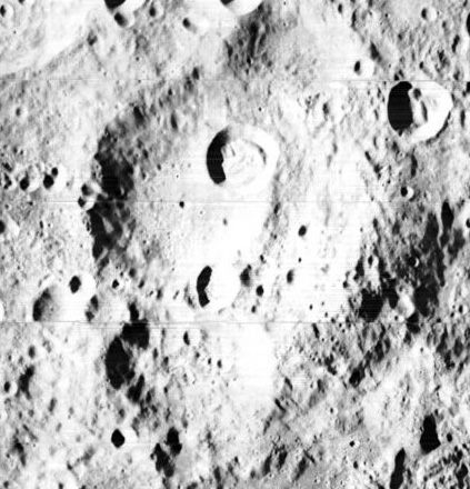 Ventris, on the moon.